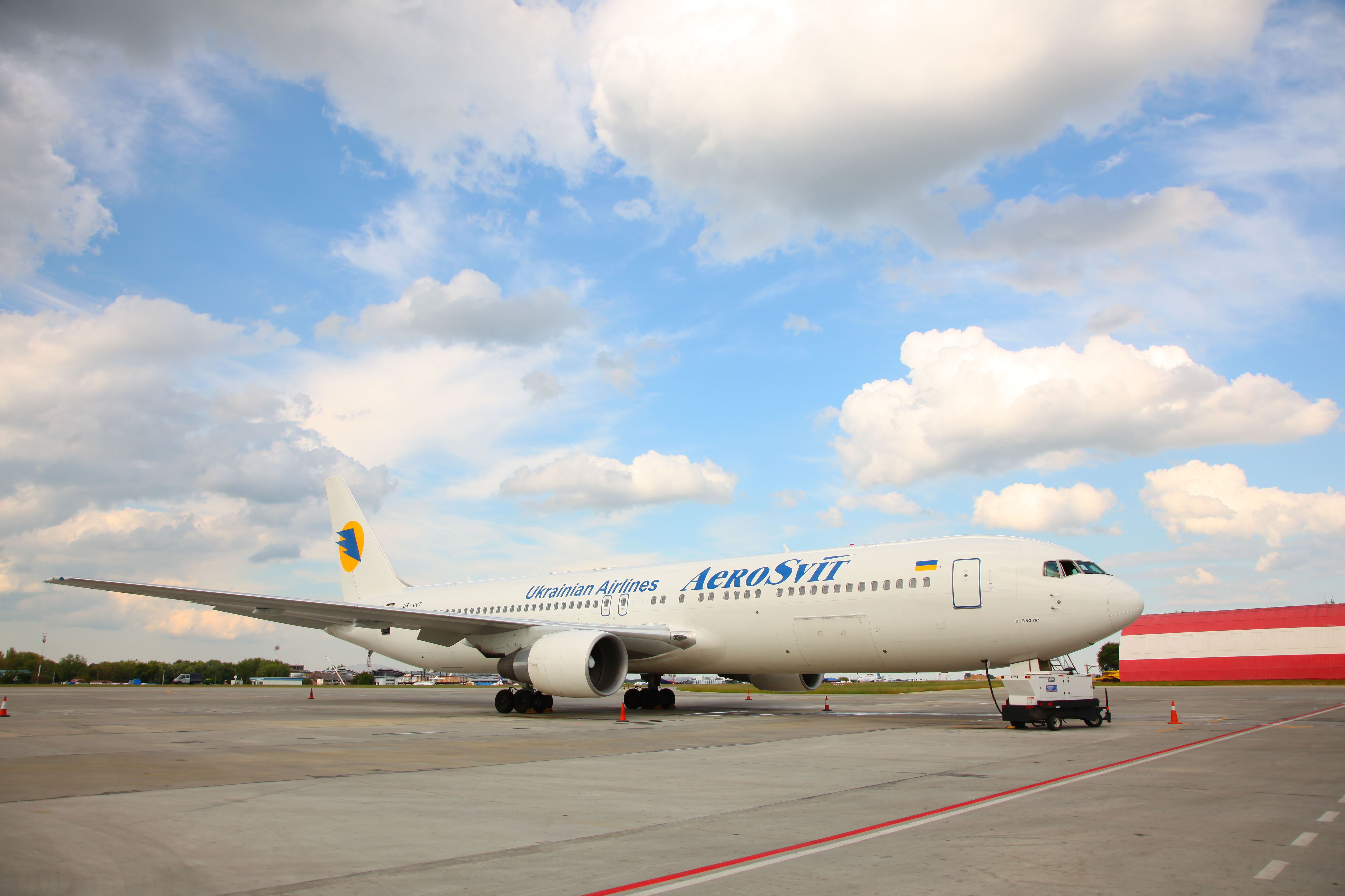 Aerosvit Boeing 767 UR-VVT